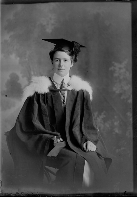 Miss Kate Violet Edgerley in academic cap and gown 1911 (Sir George Grey Special Collections, Auckland Libraries 31-66179)